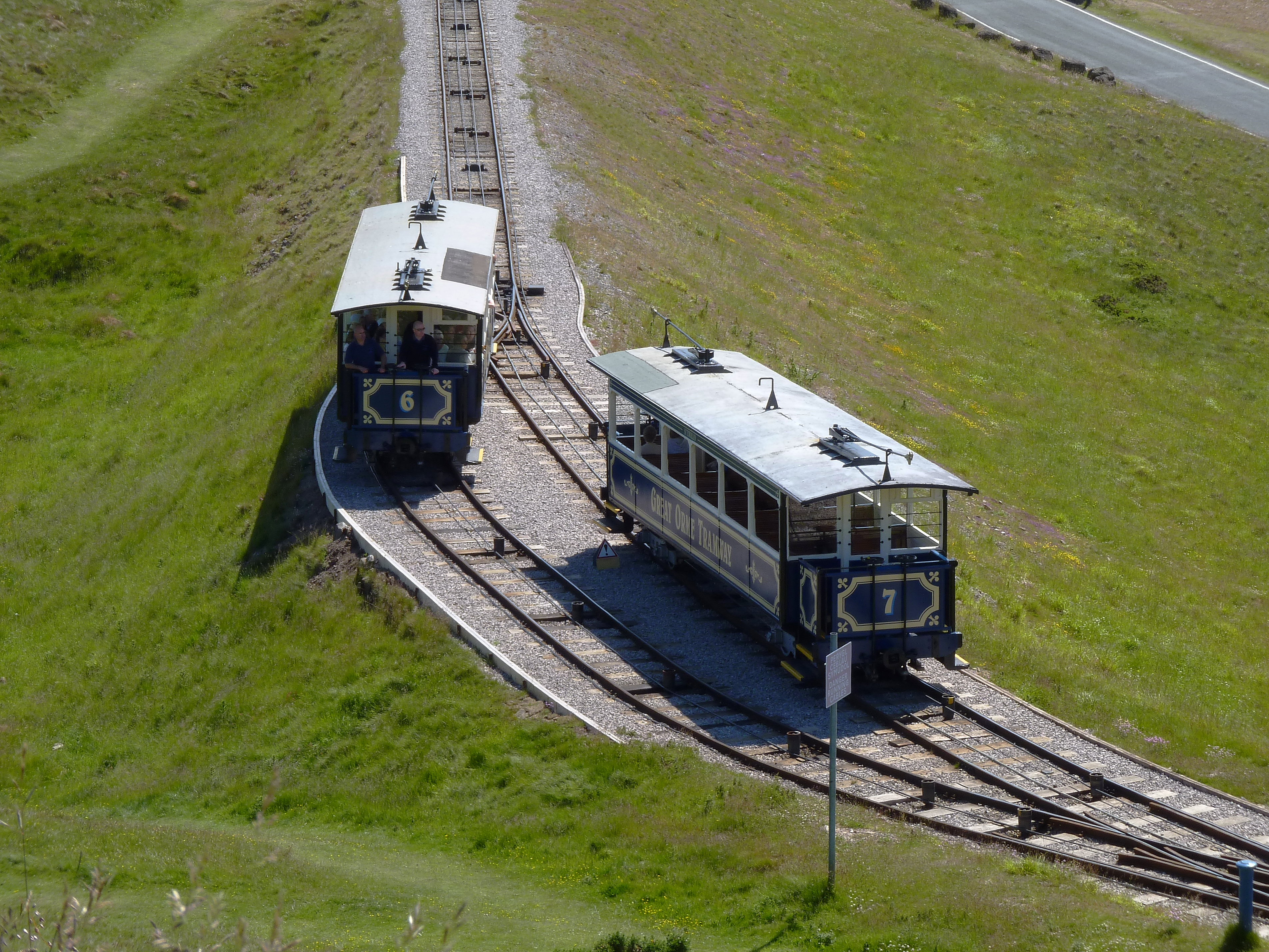 Passing point on section 2 of the tramway